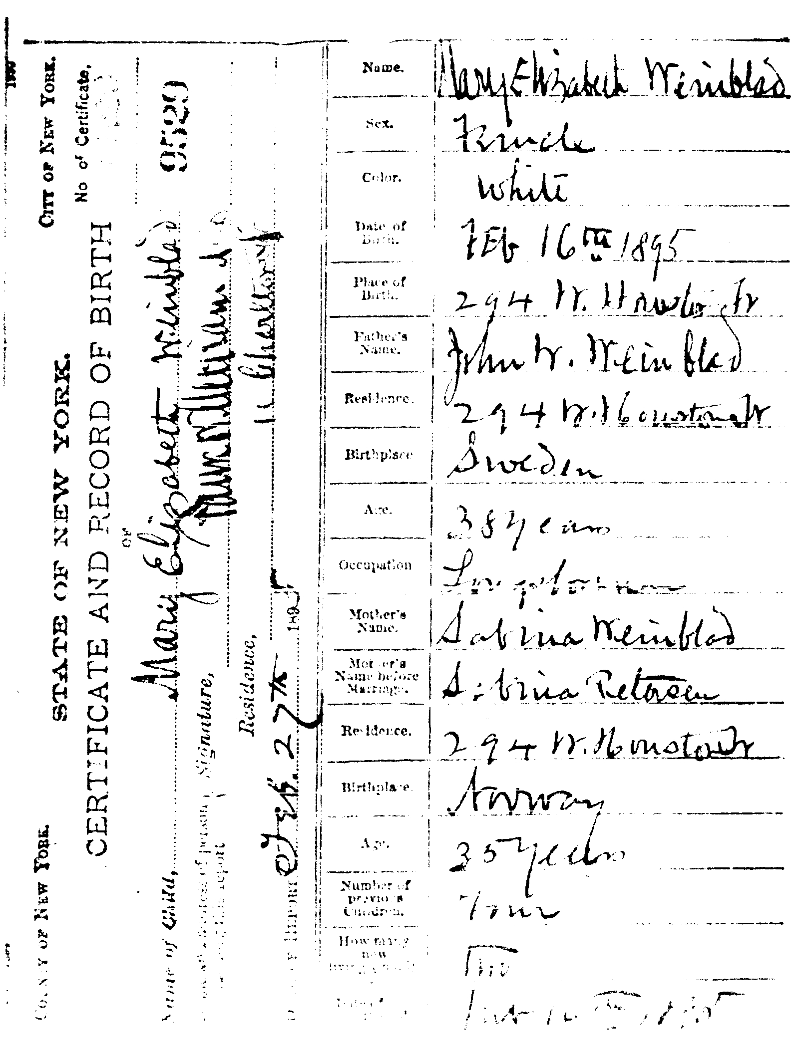 An example of a birth certificate, issued to Maria Elizabeth Winblad (1890-1987) by New York State